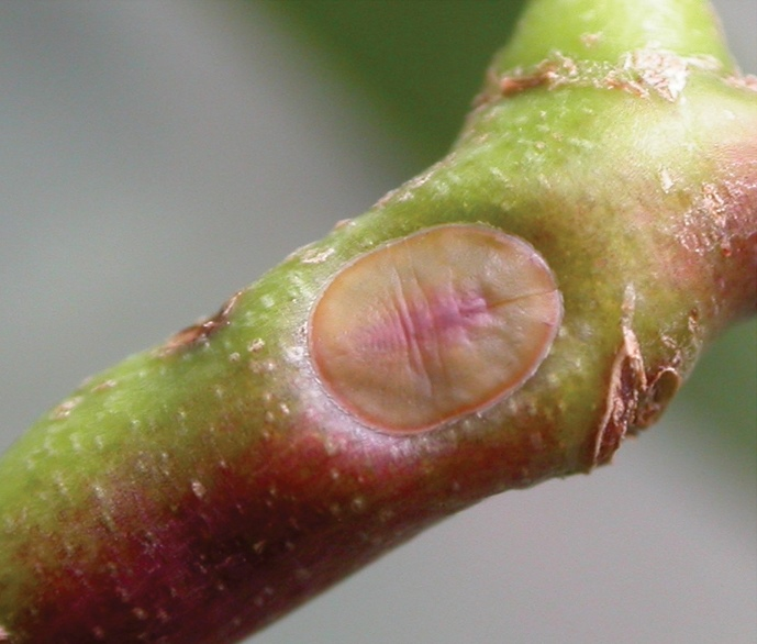 Adult female of Lachnodius lectularius in pit gall on stem of Eucalyptus viminalis, Victoria, Australia.